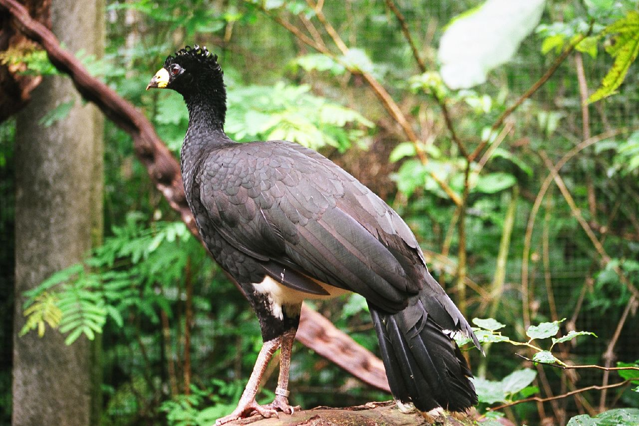 A male Bare-faced Curassow at Parque das Aves, Brazil. It has a ring on its right leg.